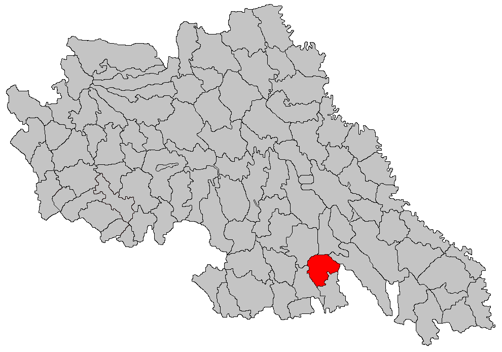 Map of Grajduri village, Iaşi county